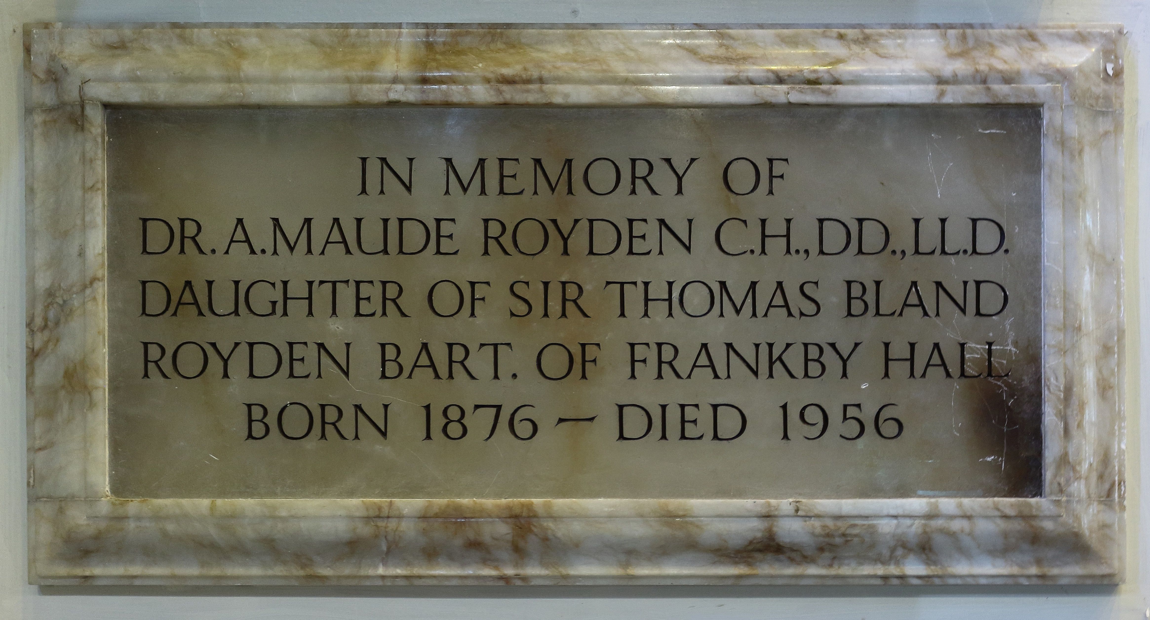 Memorial to Agnes Maude Royden on the south aisle wall of St John, Frankby